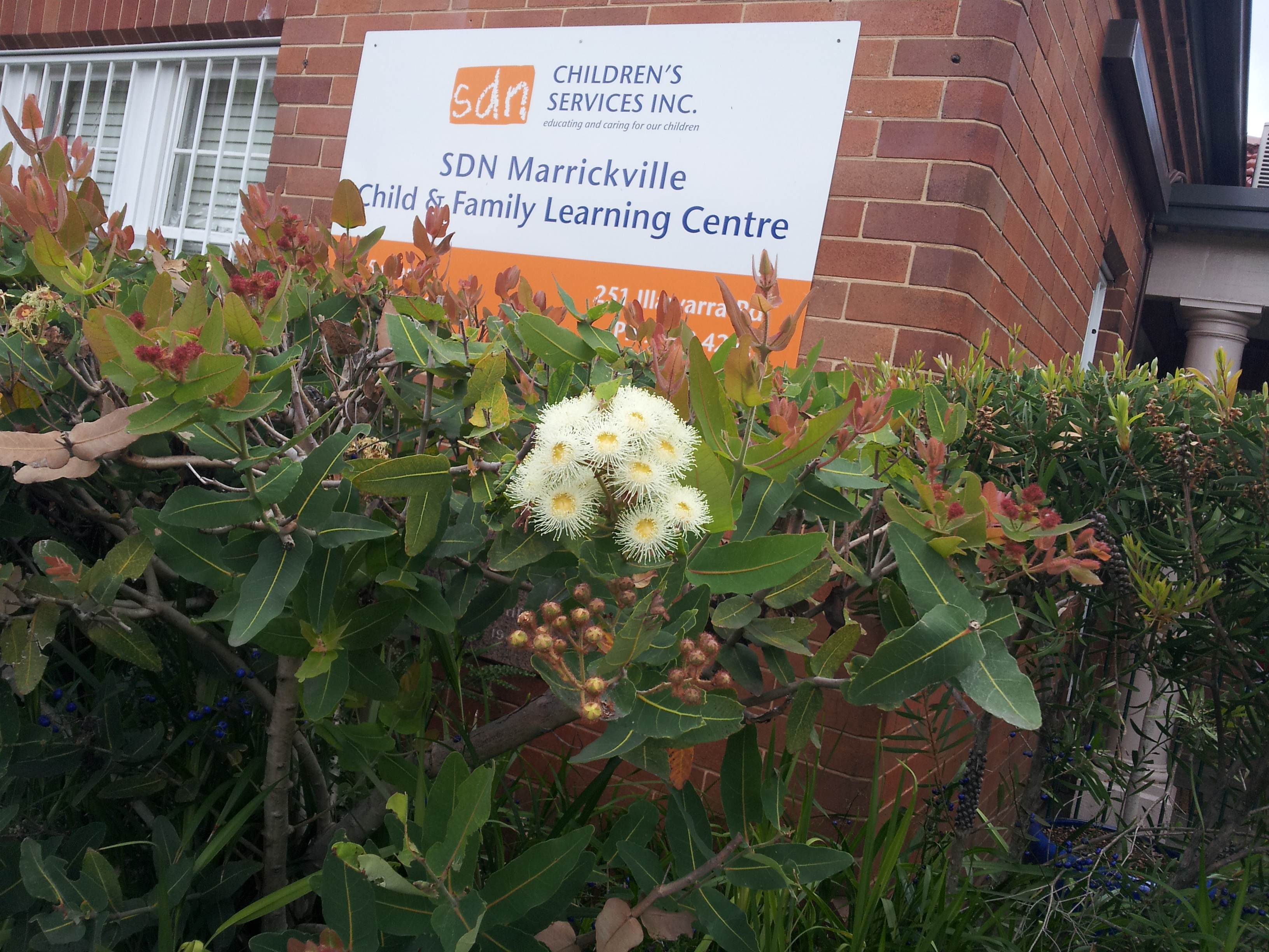 Angophora hispida in garden bed showing flowers and new growth, Marrickville, NSW